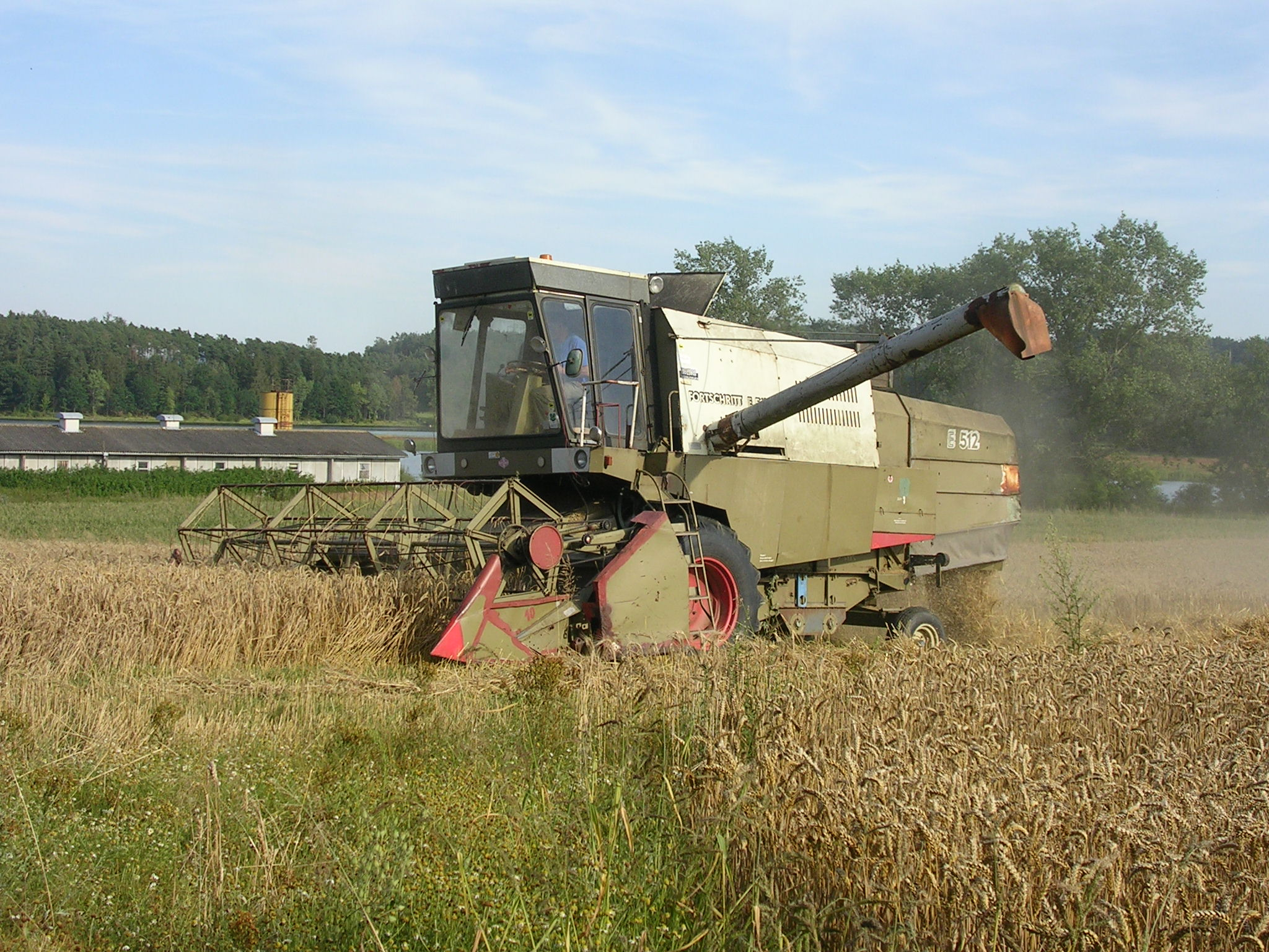 Nalžovice, Příbram District, Central Bohemian Region, the Czech Republic. Combine harverster Fortschritt E512 near Musík Pond. - Google Maps - Google Earth